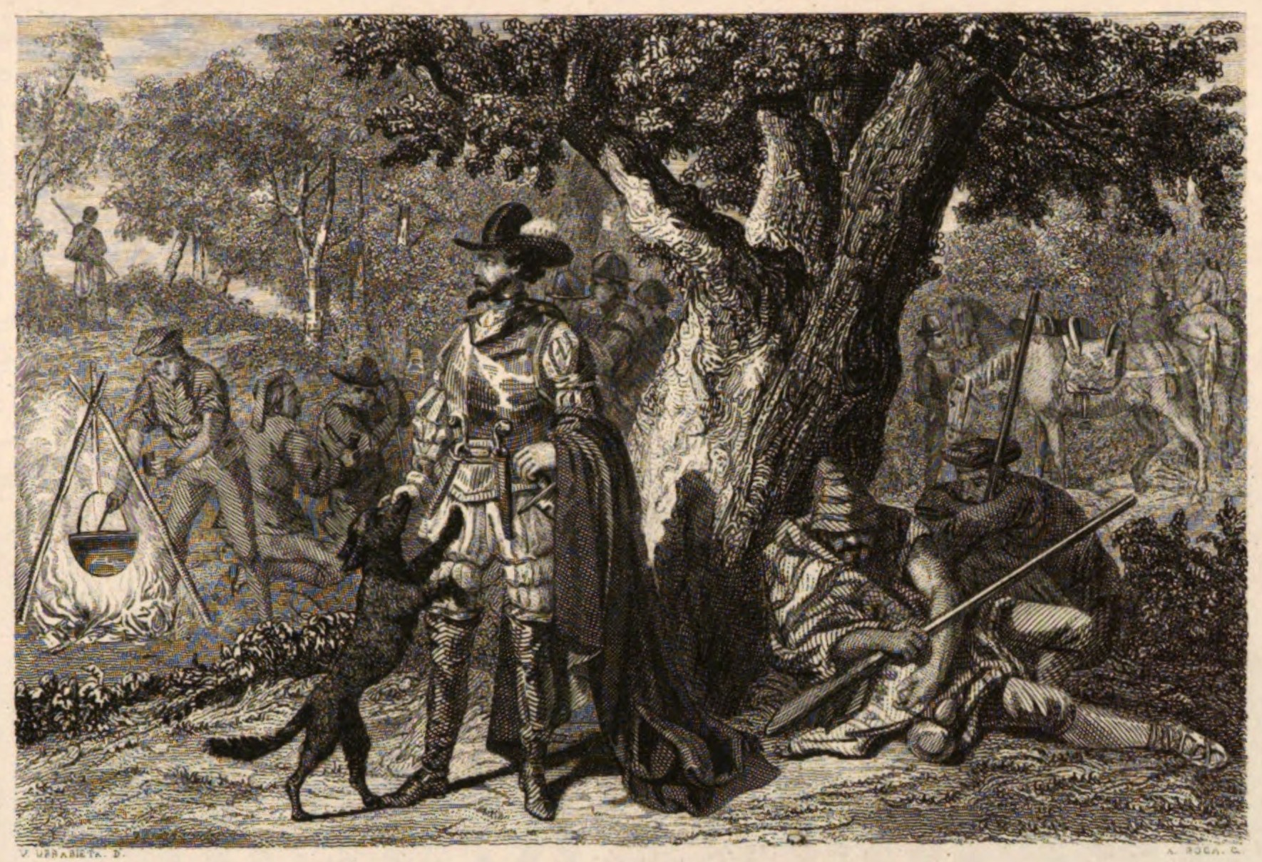 Perot Rocaguinarda, famous catalan bandit (XVI - XVII c.)